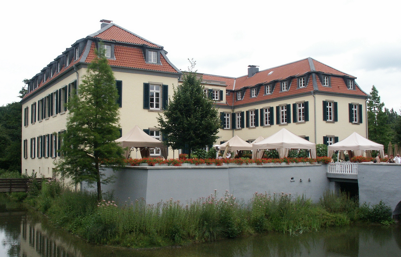 Description: Castle Berge, view from west Capture date: 23. Jul. 2005 Photographer: Sir Gawain